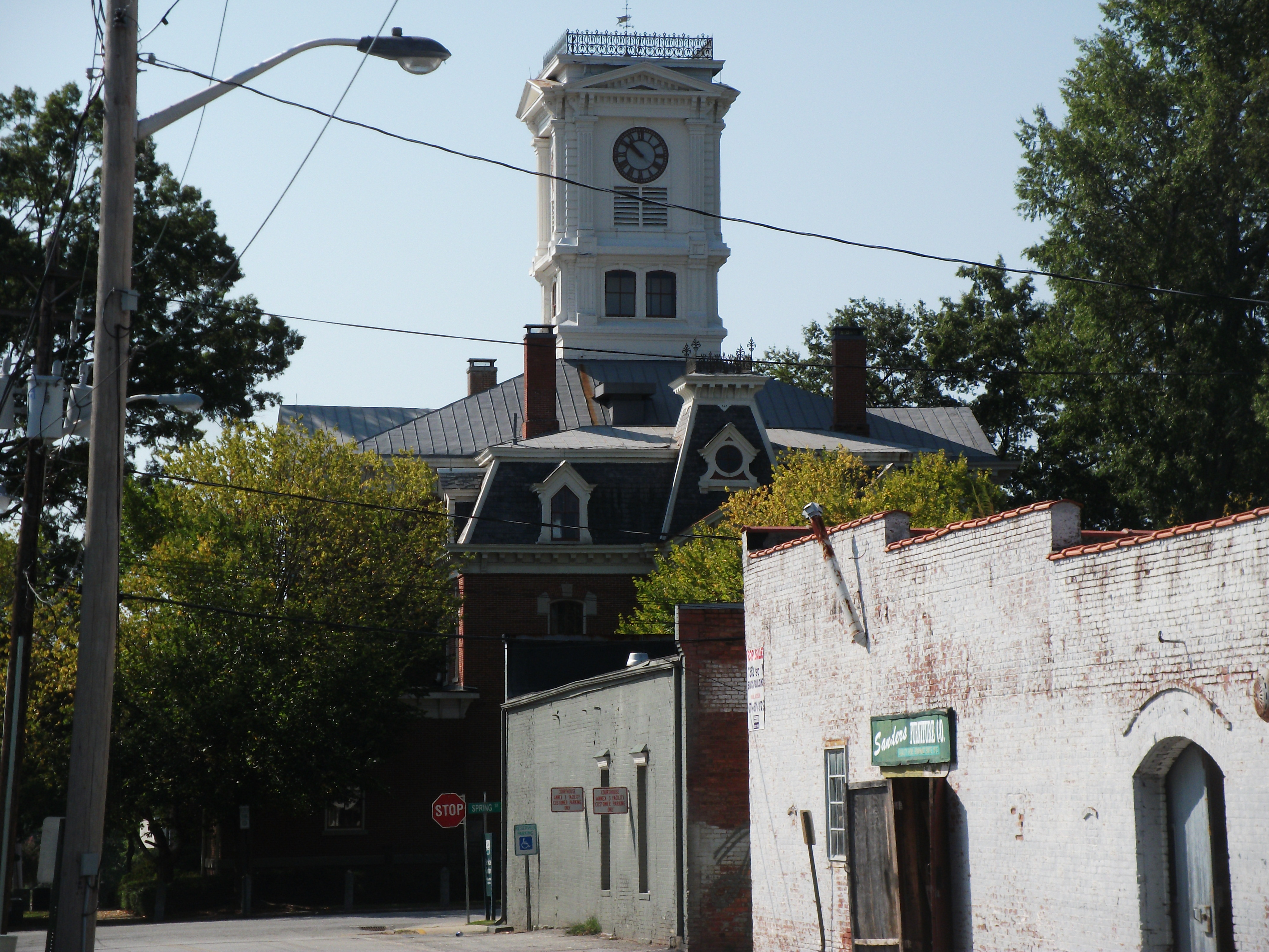 Walton County, Georgia historic courthouse, Second Empire architechture